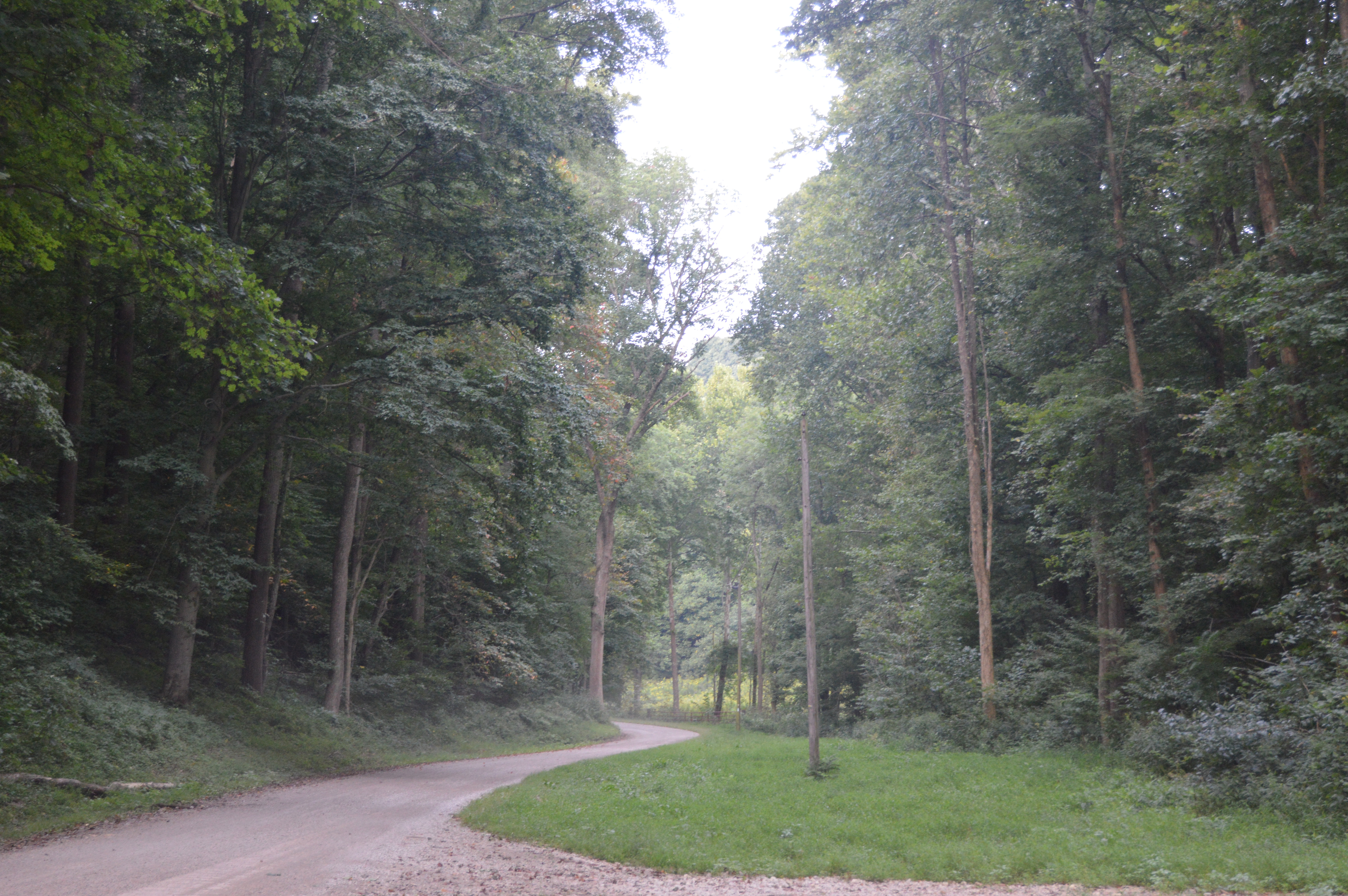 Looking west on Ellinger Road north of the Vorlis Road intersection in Marion Township, Hocking County, Ohio, United States.